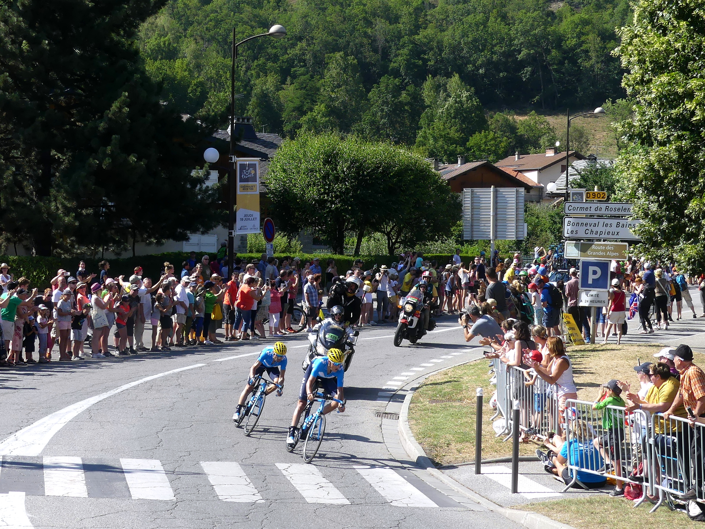 Sight of the two Tour de France 2018 team Movistar riders Marc Soler and Alejandro Valverde following the breakaway riders during the 11th step, in Bourg-Saint-Maurice, Savoie, France.